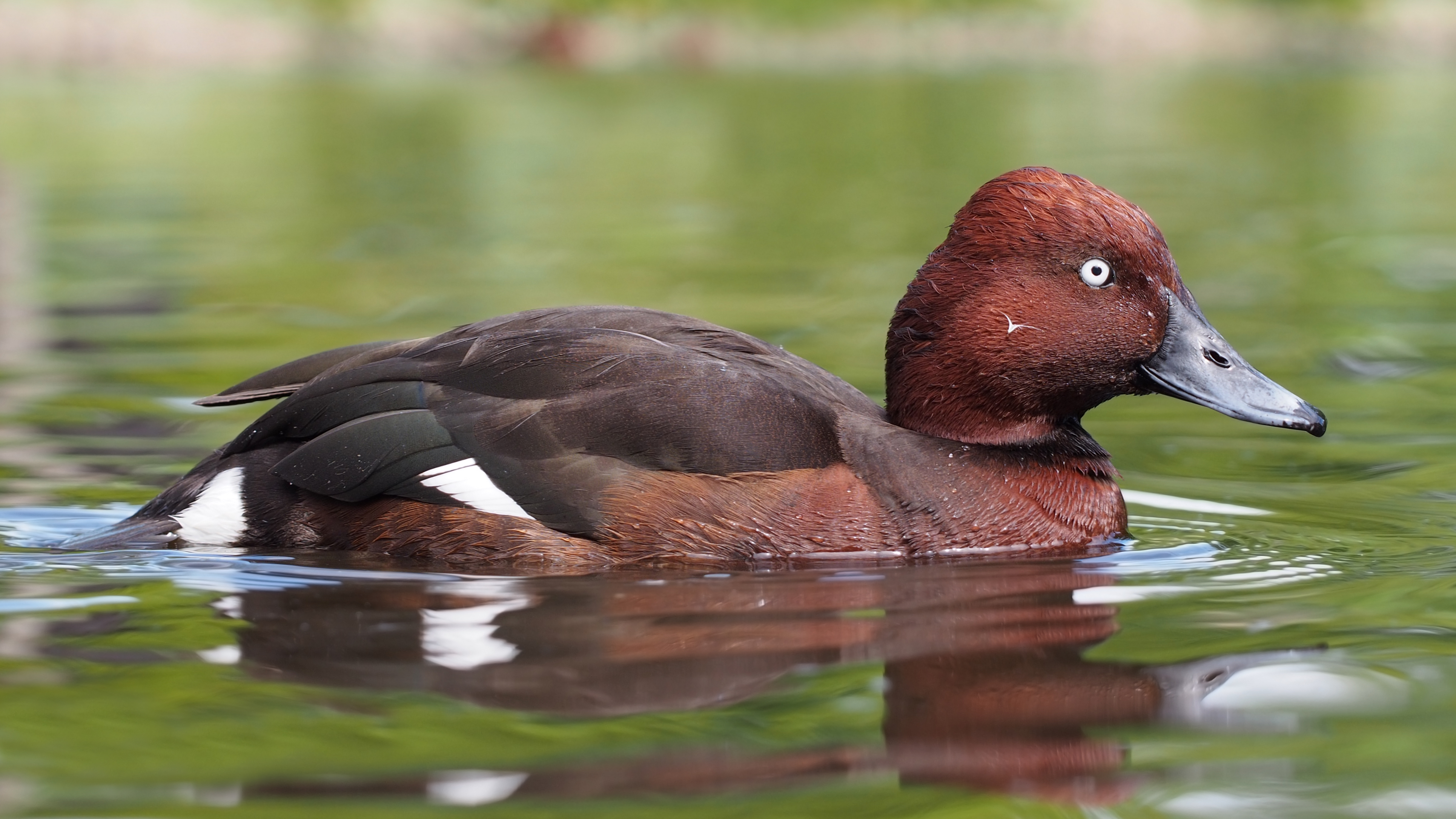 Aythya nyroca at Martin Mere, UK